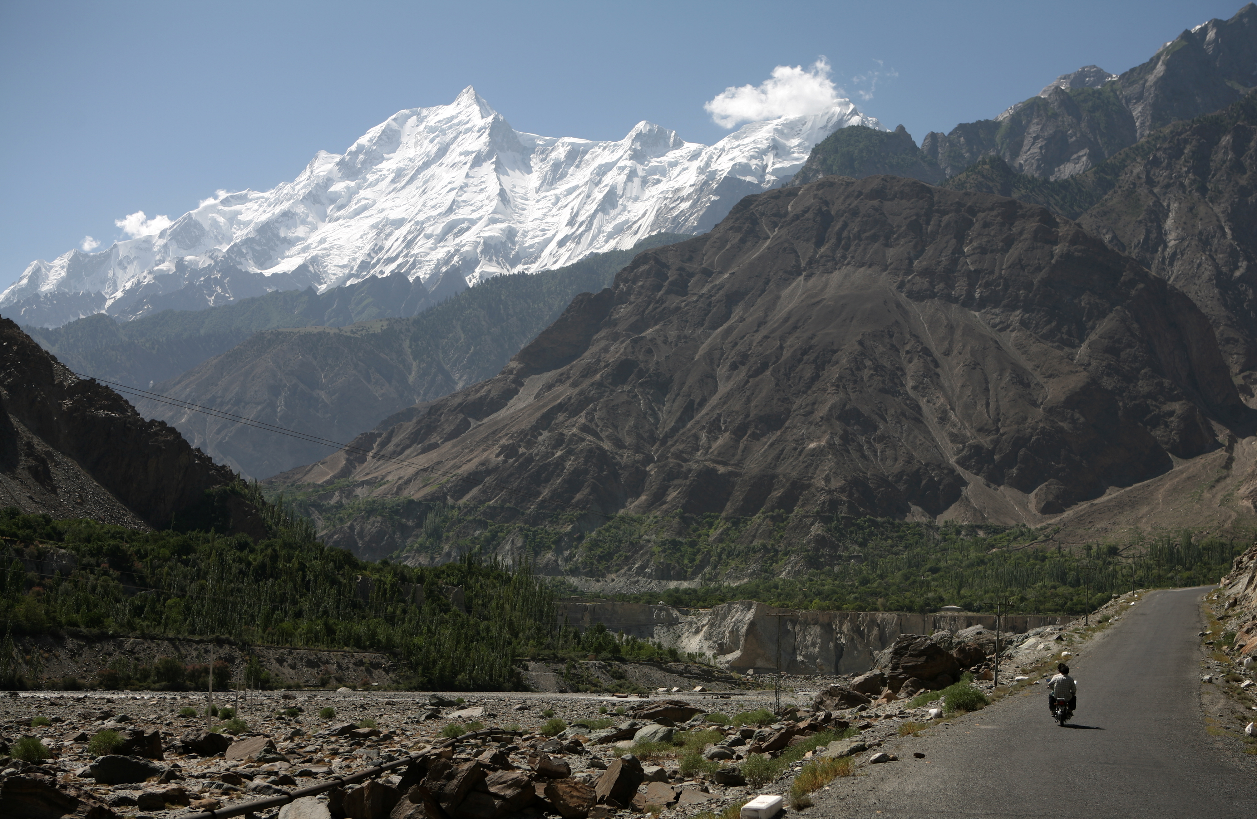 Hunza Valley near Chalt and the west face of Rakaposhi (7788 m)